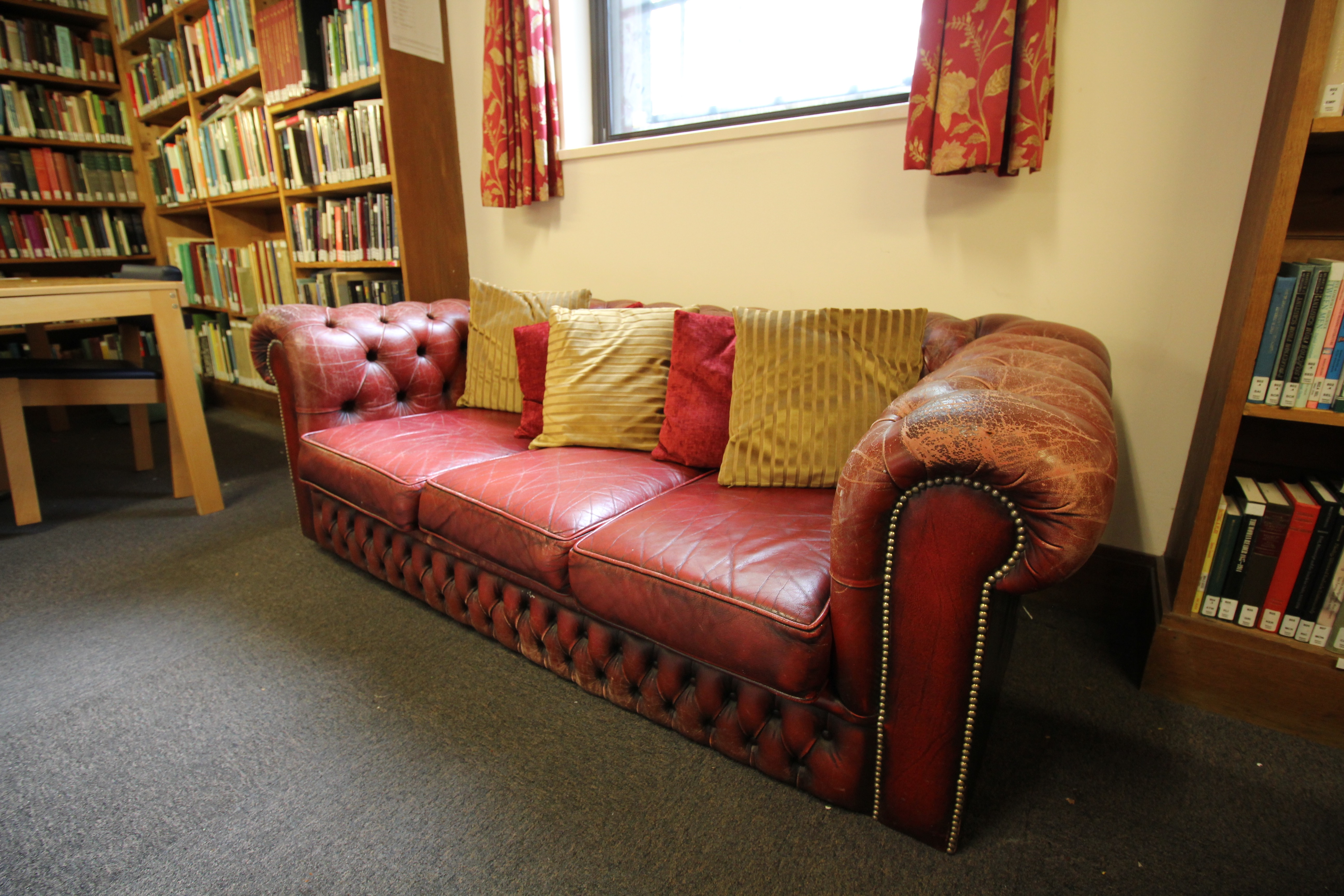 SelwynCollegeCambridge_Library_5